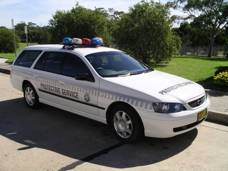 2002–2004 Ford BA Falcon XT station wagon patrol car of the Australian Protective Service.